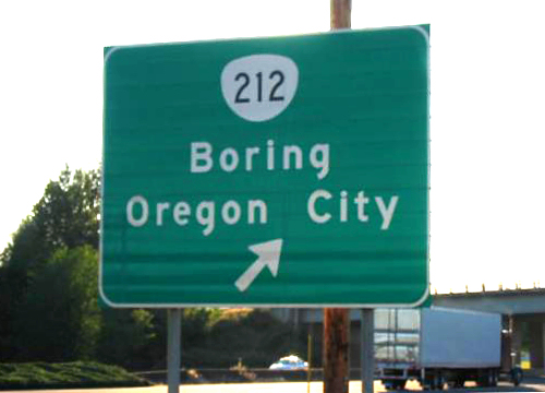 This is a picture of the Boring/Oregon City sign east of Boring at the interchange between U.S. Highway 26 and Oregon Highway 212. clipdude is the photographer, and has placed this image under GFDL